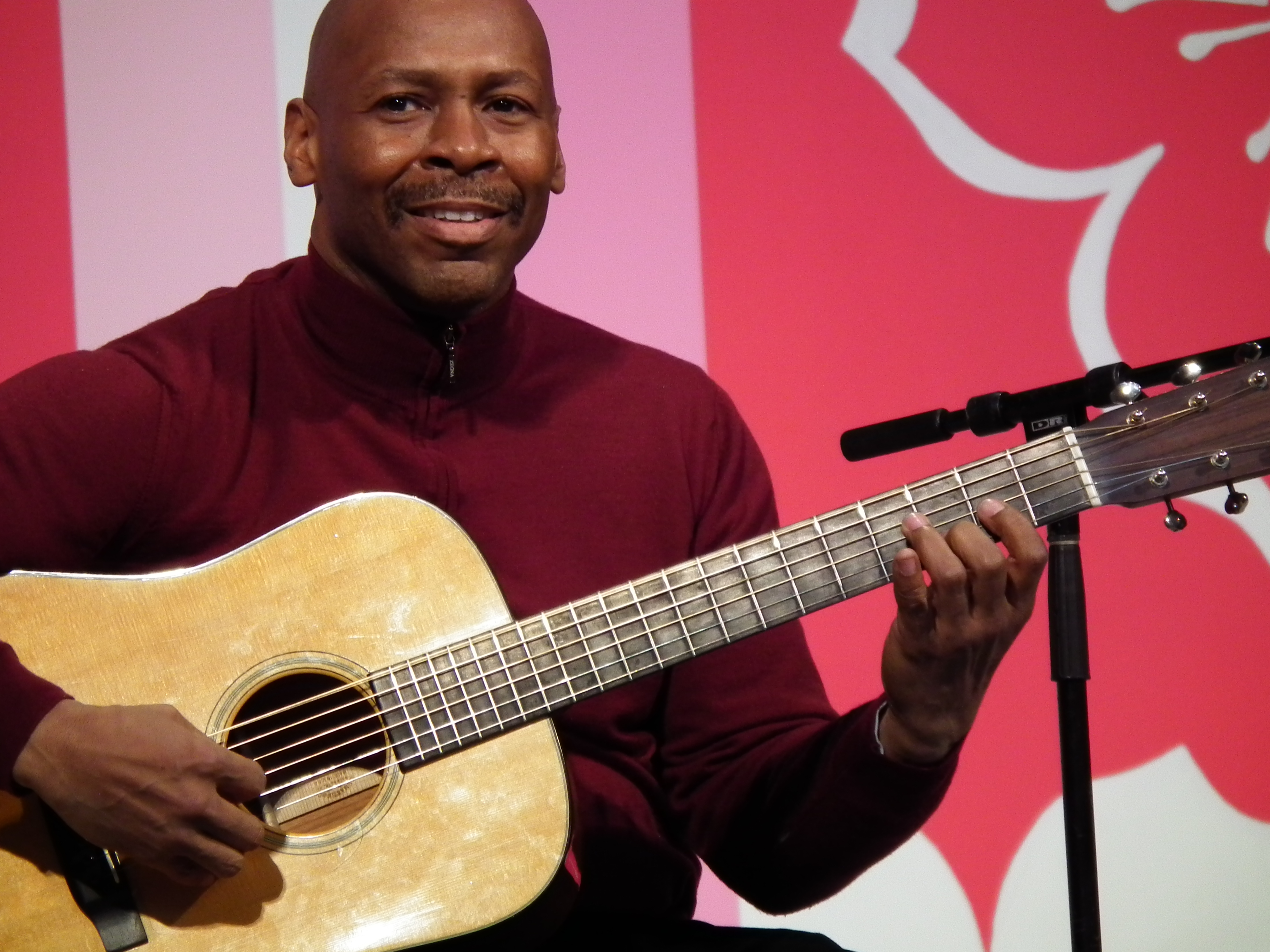 Kevin Eubanks at the National Cherry Blossom Festival in Washington D.C.